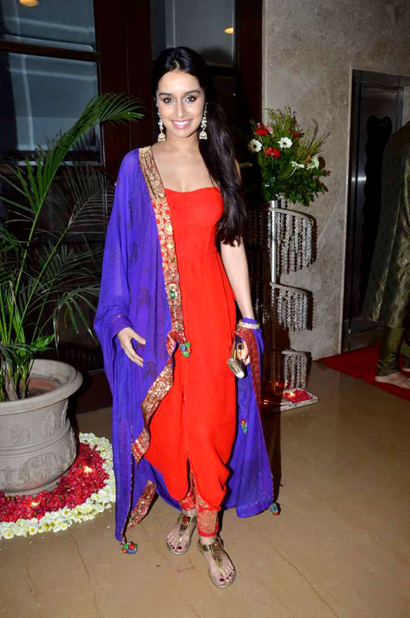 Shraddha Kapoor at the sangeet of Bappa Lahiri